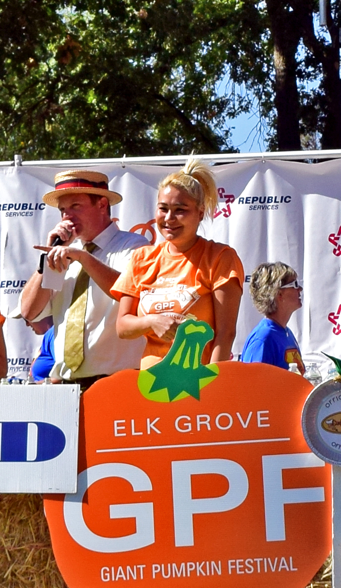 Miki Sudo at the Annual 2015 Elk Grove Pumpkin Festival Pumpkin Pie Eating Competition.